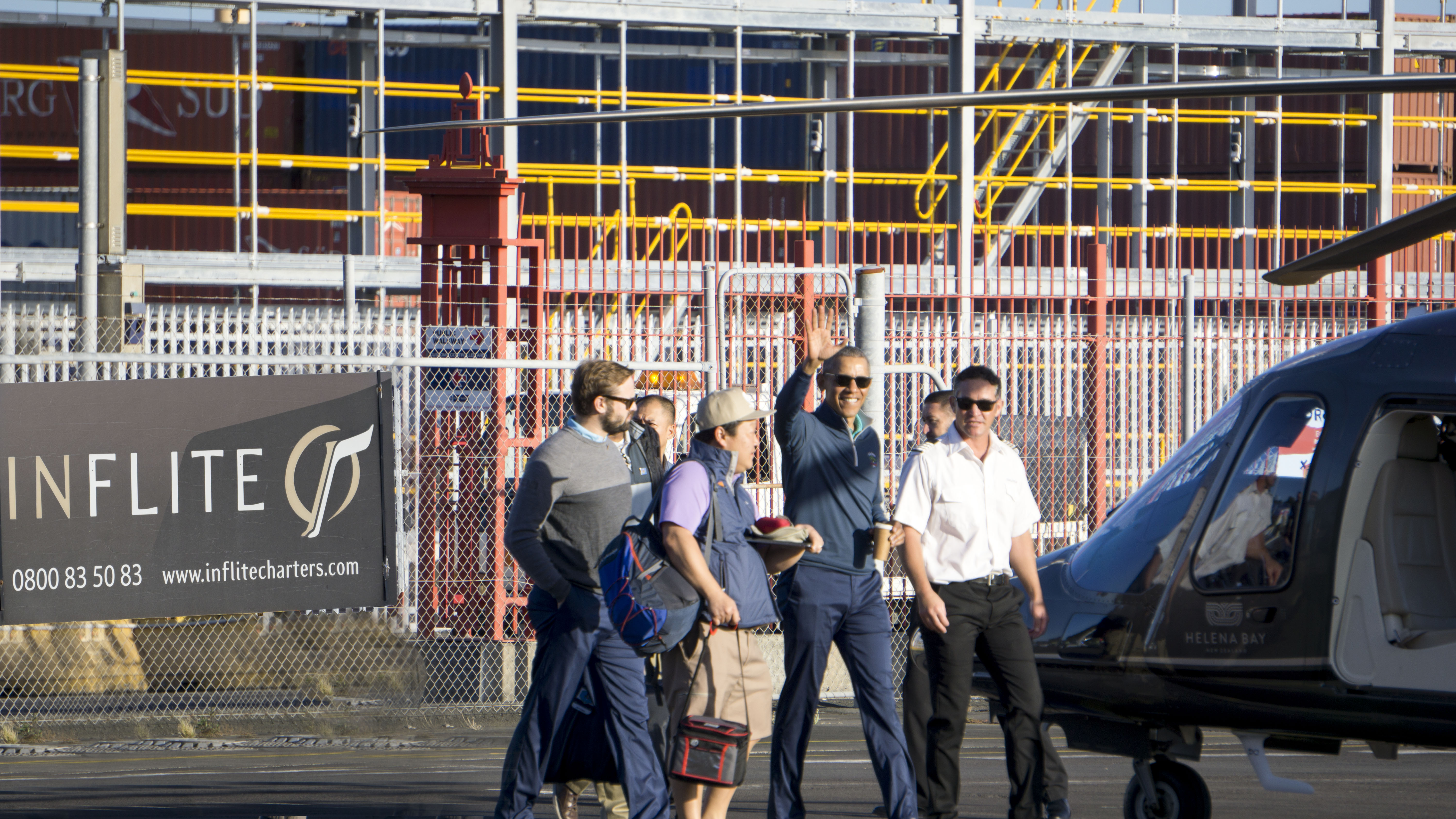 Former President of the USA, Barack Obama visiting Mechanics Bay